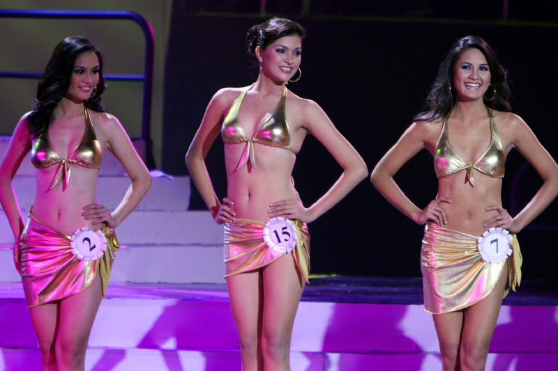 Q&A time of Binibining Pilipinas 2008 (center is Janina San Miguel).